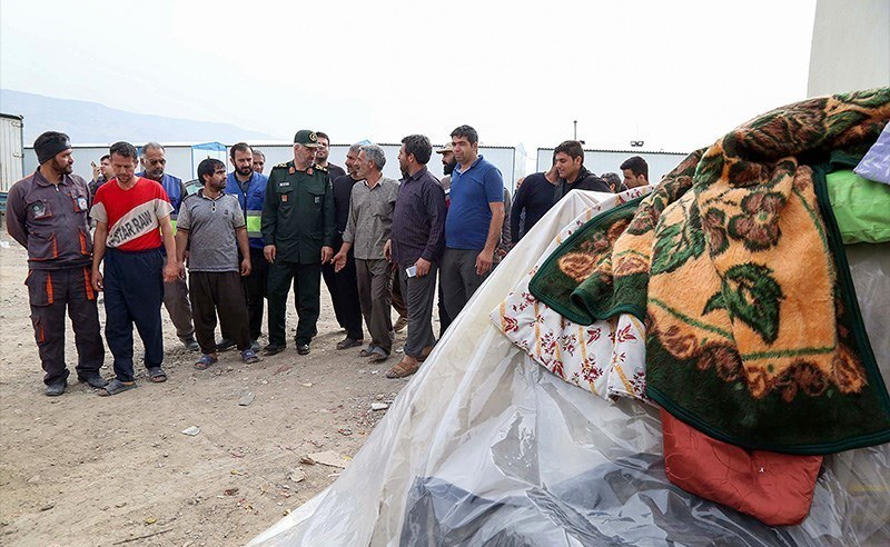 The Brigadier General Ali Fazli Commander's successor of Basij in the earthquake-stricken areas of Kermanshah